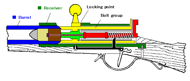 Internal structural drawing of Dreyse M1841.